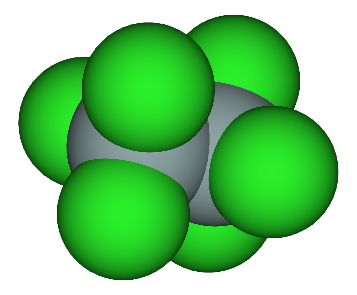 Hexachlorodisilane